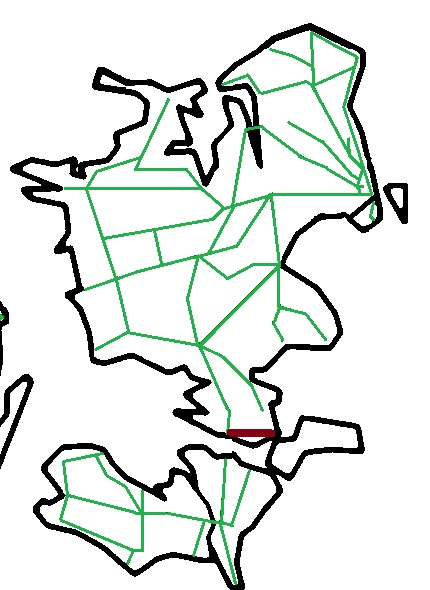 Map of railways on Zealand in Denmark with the private railway Kalvehavebanen in brown.